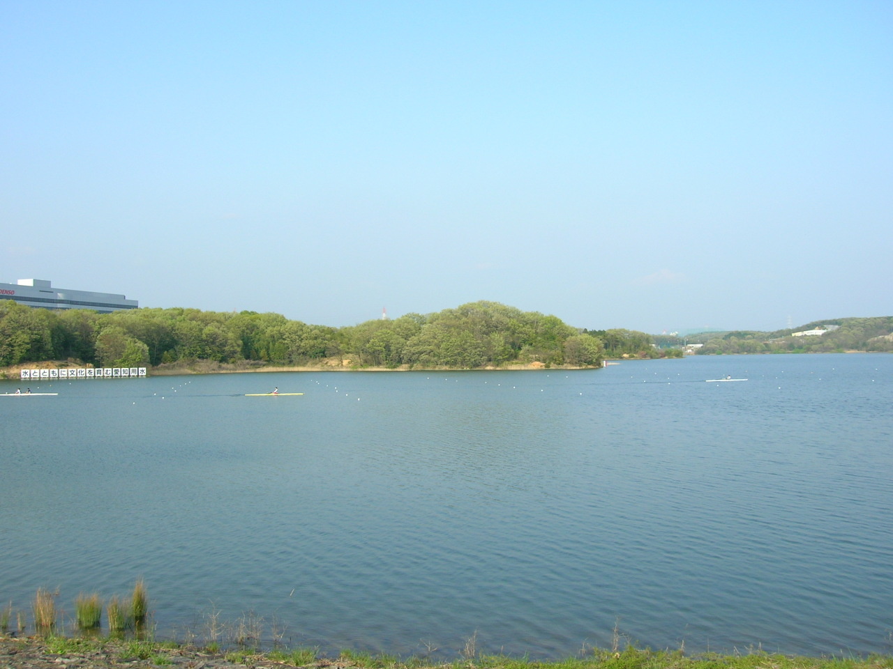 Aichi ike. (Aichi water supply's artificial lake, build 1961.) Loc: Togo town. Aichi Prefecture, Japan 愛知池 撮影場所 愛知県愛知郡東郷町